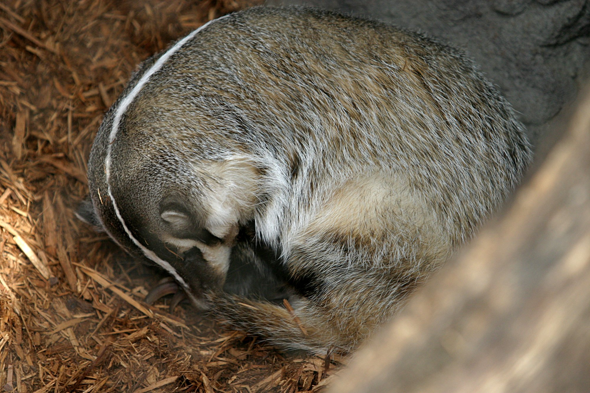 American Badger sleeping at the Henry Doorly Zoo in Omaha, Nebraska.